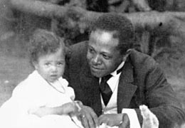 McCants Stewart (1877 - 1919), first African American lawyer in Oregon. The young girl is his daughter, Mary Katherine.